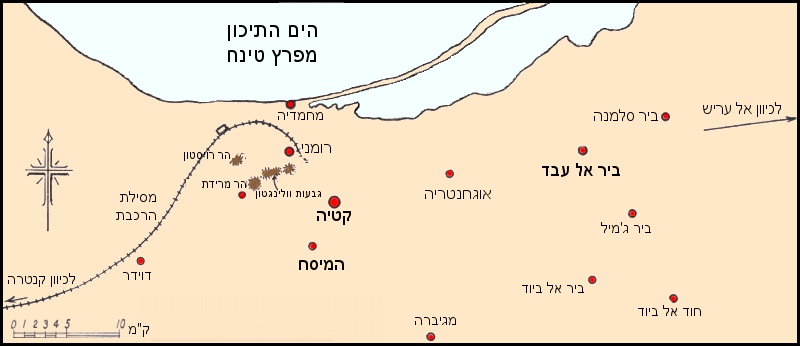 מפת תאור הקרב על רומני, במהלך המערכה על סיני וארץ ישראל במלחמת העולם הראשונה